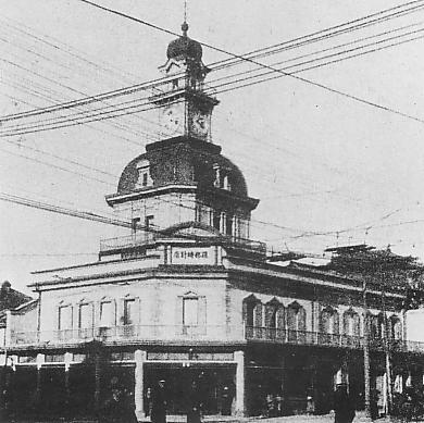 K. Hattori building in Meiji era